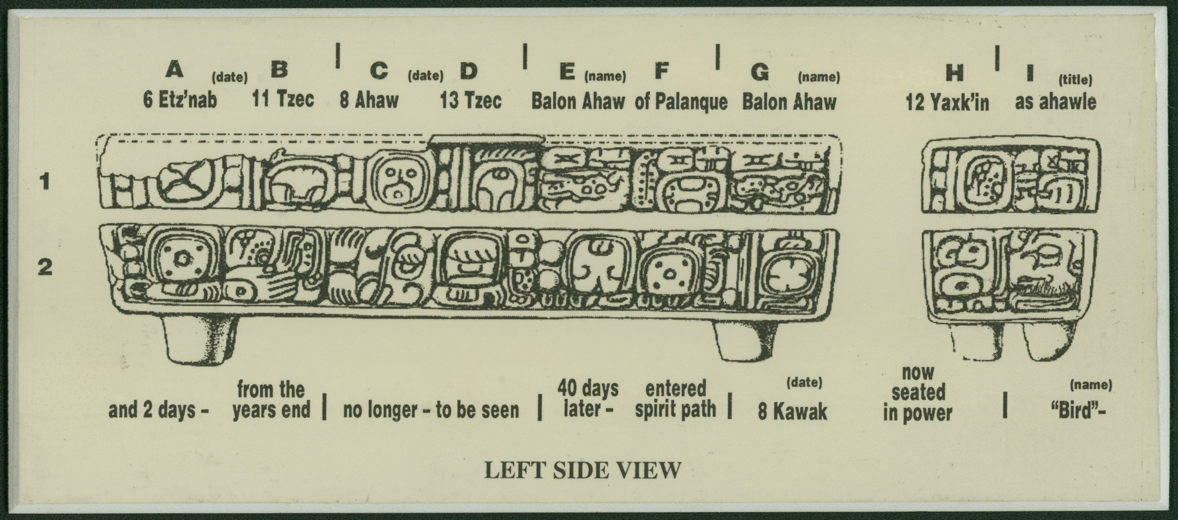 This object, called the Tortuguero box because its inscriptions are comparable to those found in Tortuguero, Mexico, is a diminutive offering box, one of very few surviving Mayan personal objects made of wood. The full-length portrait of a Mayan lord on the cover of the box and the 44 hieroglyphic signs tell a story that yields important insights into the Mayan social system. The narrative begins with the image of the box’s owner, Aj K'ax B'ahlam, the holder of an important position under the patronage of the Tortuguero king, Ik' Muyil Muwaahn II. Many of the glyphs are eroded, thereby obscuring part of the story, but the legible areas show names and dates that have allowed for a partial translation of the Mayan text. The text continues on the left side, mentioning the death of a different ruler, B'ahlam Ajaw. The narrative continues by linking the death of B'ahlam Ajaw to the accession of his son, Ik' Muyil Muwaahn II, 41 days later. Other phrases identify Ik' Muyil Muwaahn II as the namesake of his grandfather and refer to the investiture of Aj K'ax B'ahlam into the "head bird office” on March 8, 680. The text concludes with the date the box was made, October 14, 681, and refers to it as the yotoot mayij, or "offering container," of Aj K'ax B'ahlam himself. Hieroglyphs; Kings and rulers; Mayas; Signs and symbols; Writing--History